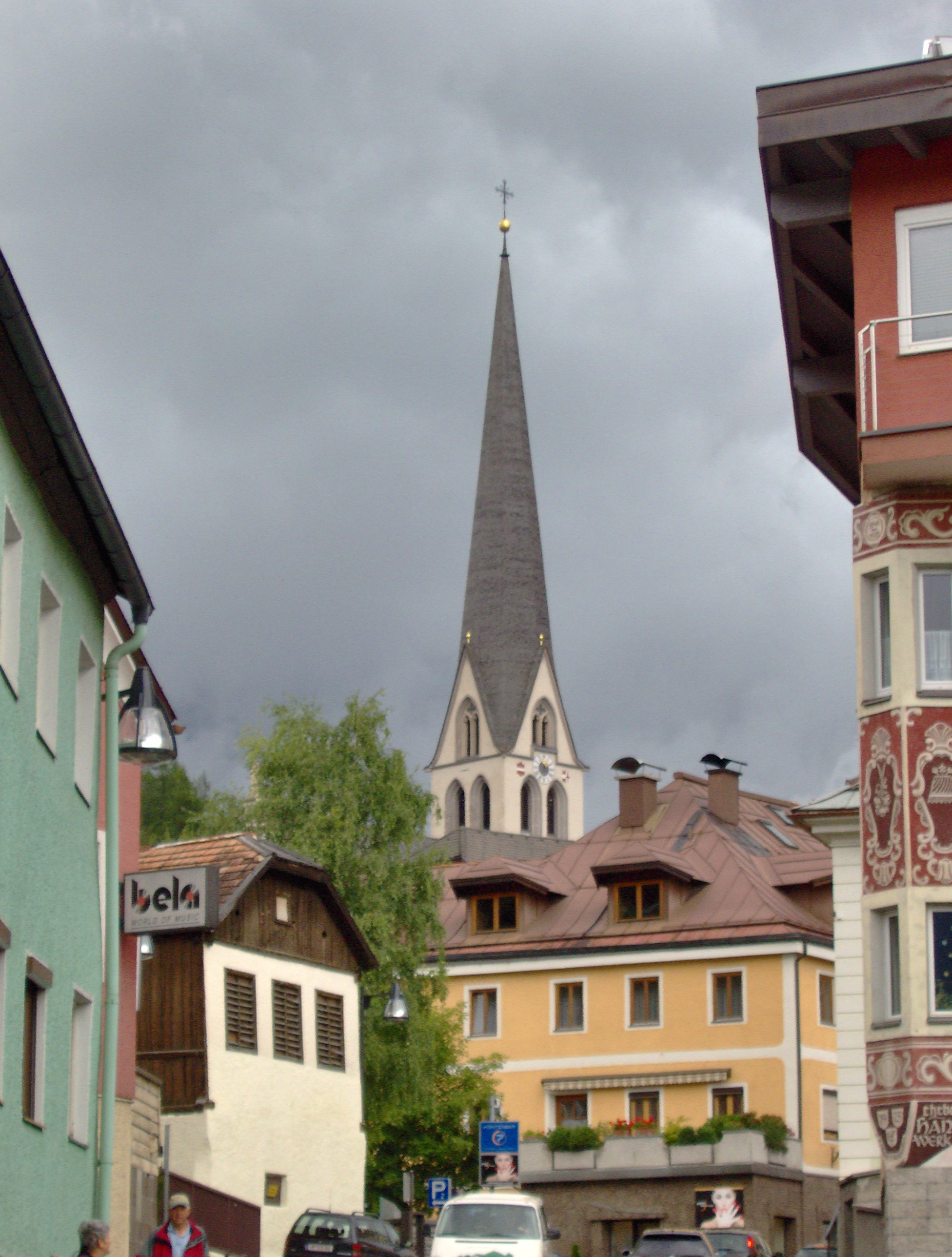 The tower of the church "Maria Himmelfahrt" in Imst, Tyrol, Austria. The church was built in 1350 and its 84,5 meter high tower is the highest in Tyrol.